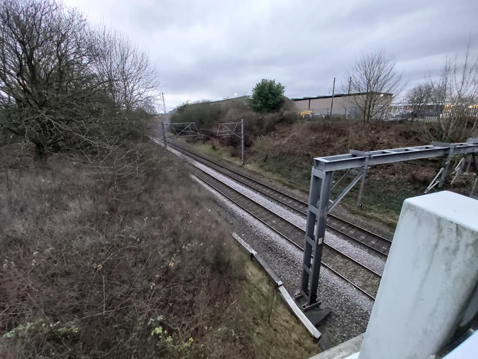 My own